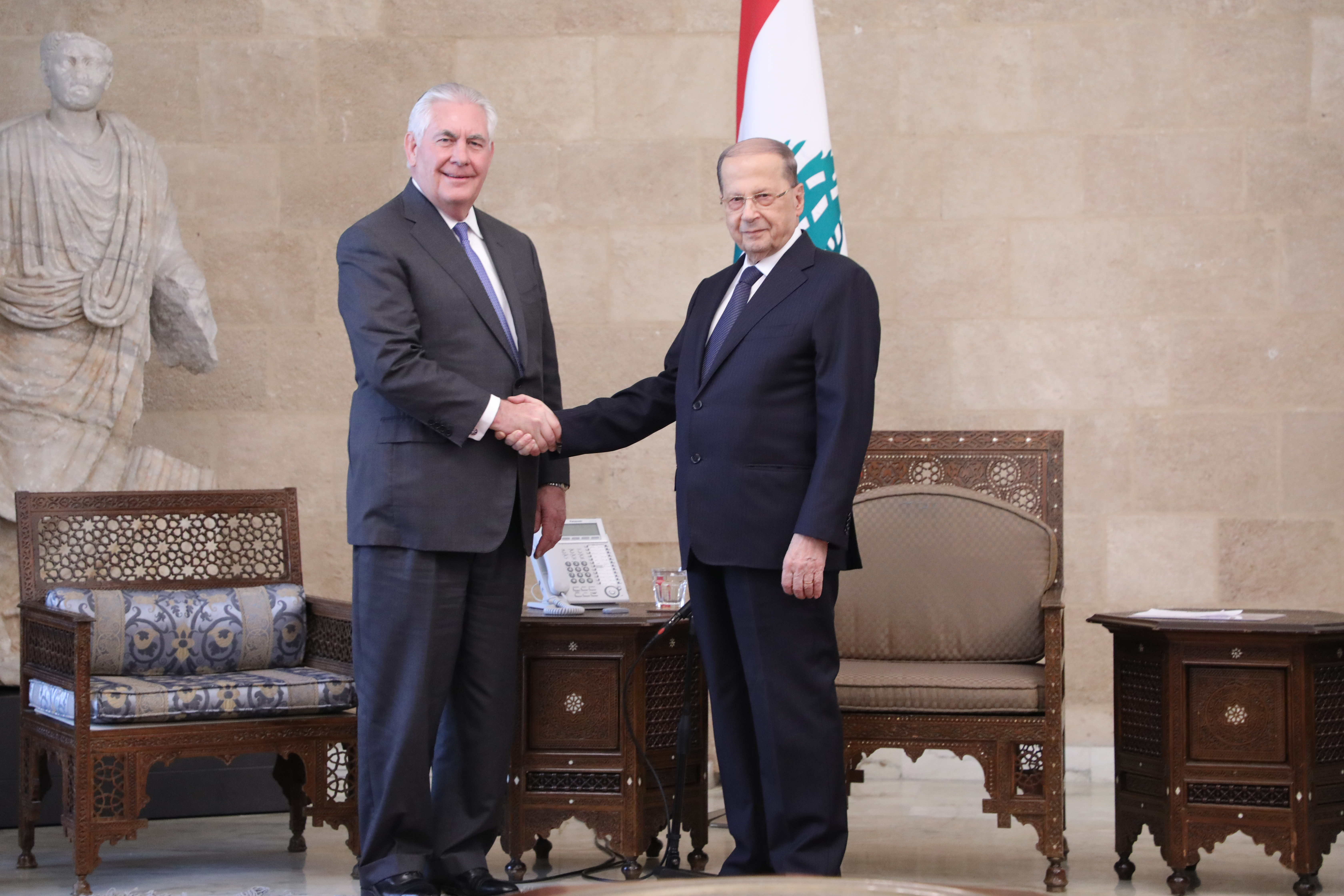 U.S. Secretary of State Rex Tillerson meets with Lebanese President Michel Aoun at the Baabda Presidential Palace in Beirut, Lebanon on February 15, 2018.